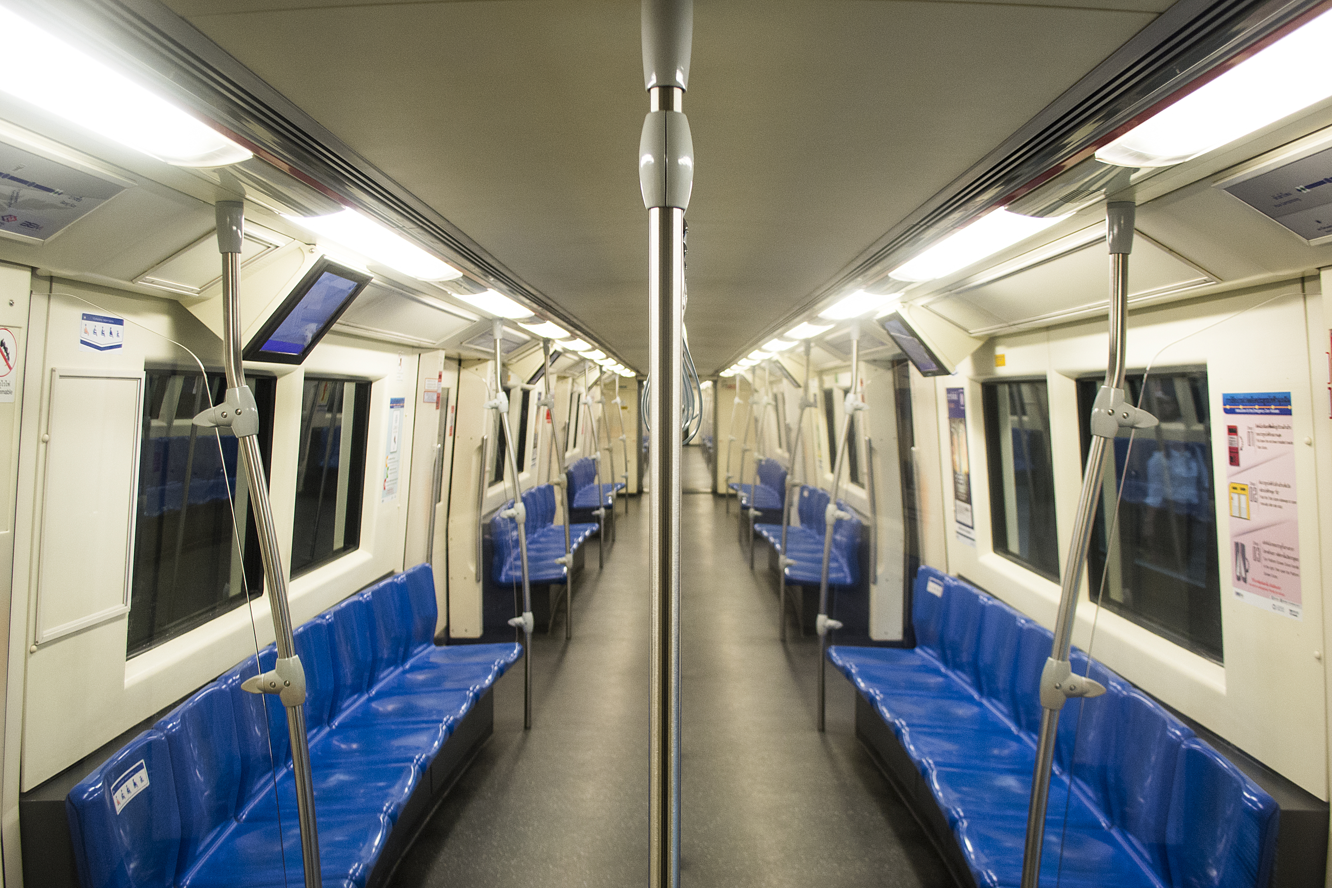 Inside the train of MRT blue line, Siemens Modular Metro.